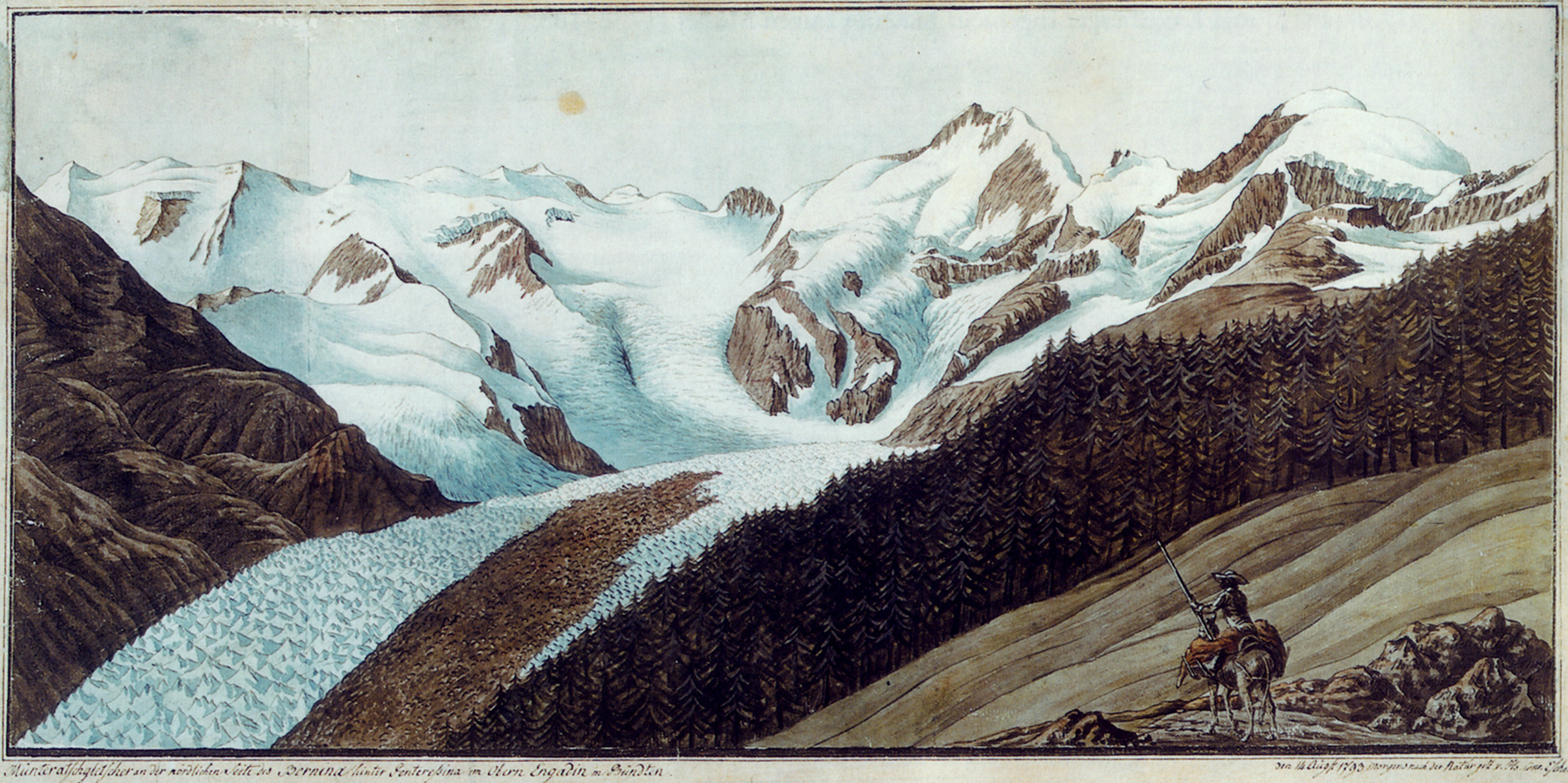 Morteratsch Glacier in Switzerland, August 1793.